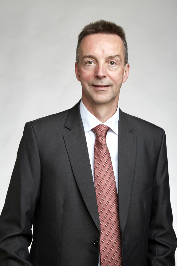 Andrew John King is a Professor of Neurophysiology and Wellcome Trust Principal Research Fellow in the Department of Physiology, Anatomy and Genetics at the University of Oxford and a Fellow of Merton College, Oxford. Attribution: The Royal Society